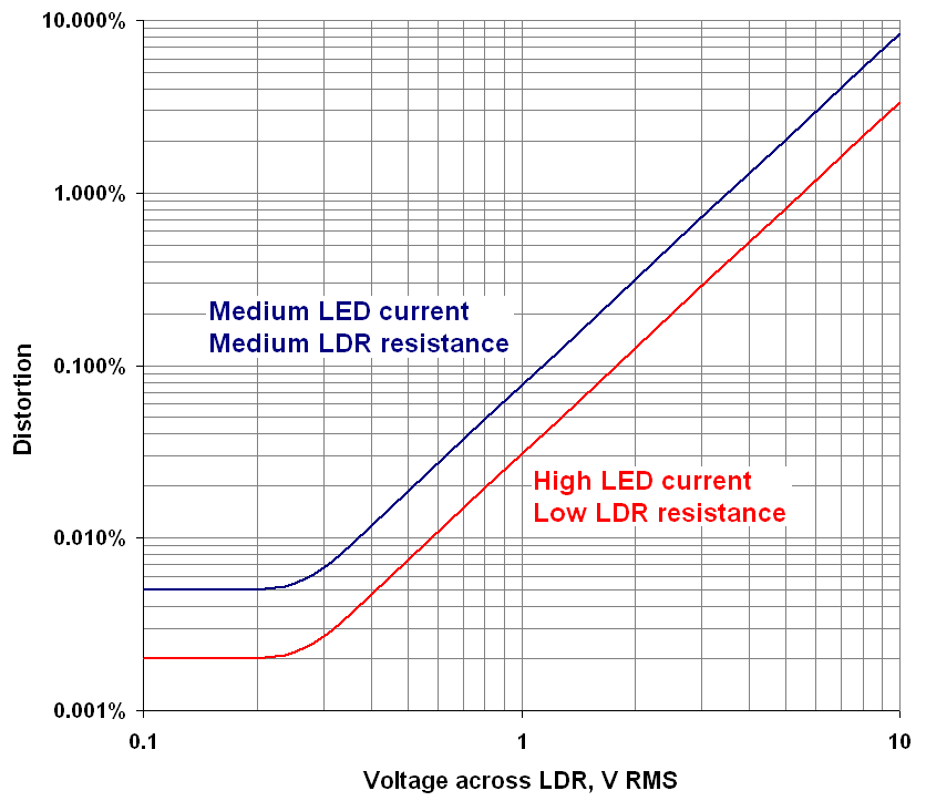 Typical pattern of amplitude distortion of a LED-LDR optoisolator (vactrol) as a function of RMS AC voltage across the LDR (photoresistor). In the absence of DC bias, most of distortion is third harmonic, with some second harmonic. At very low voltages, distortion levels at a residual floor and is (somewhat counteintuitively) almost all second harmonic. Adapted from charts and textual data in PerkinElmer (2001). Photoconductive Cells and Analog Optoisolators (Vactrols®). pp. 35-36.